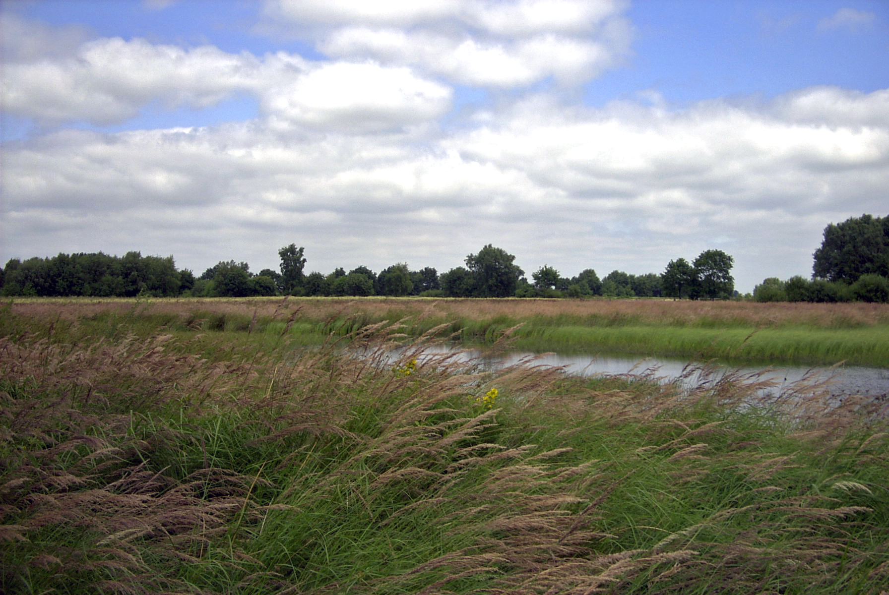 Sumpfreitgras (Calamagrostis canescens), “Schlatt” near Syke (Lower Saxony)